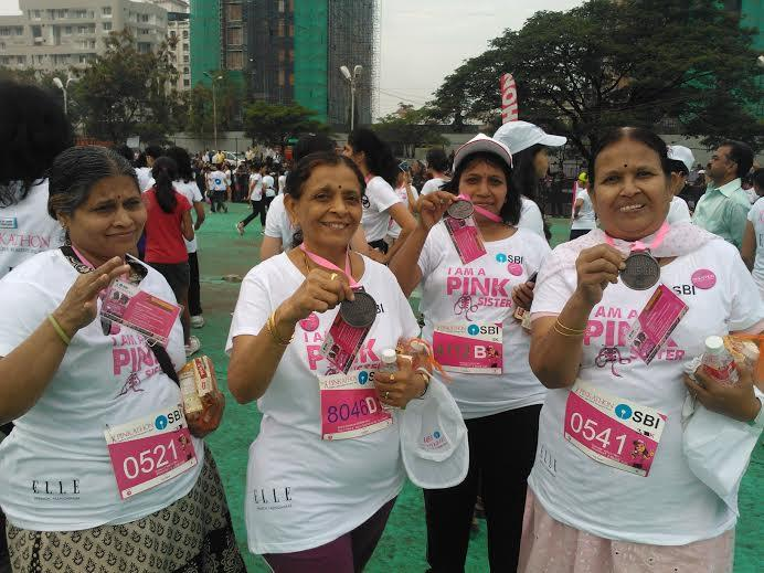 Pinkathon 2014, in Pune, saw over 6,000 women of all ages participating in the marathon.